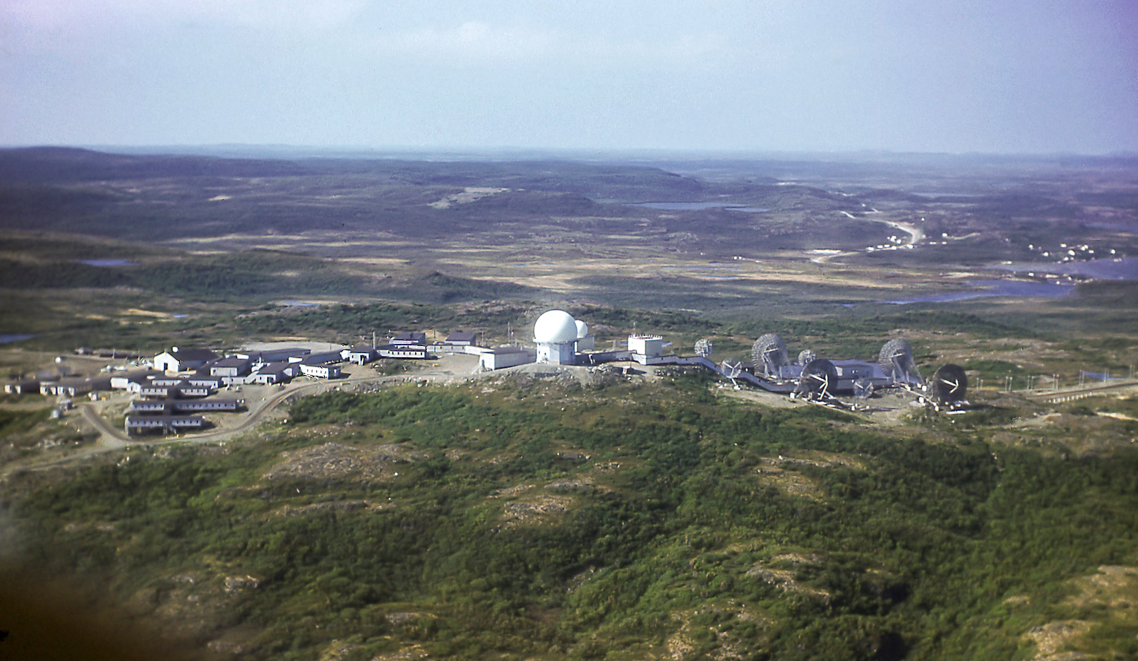 US Air Force radar station - St Anthony, Newfoundland July 1961 Photo by Robert Shomler